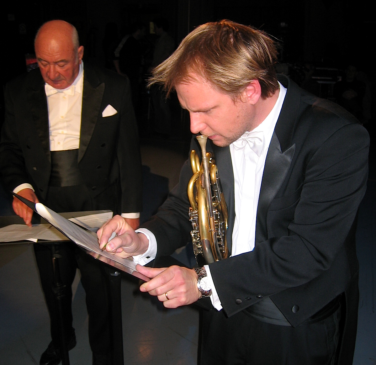 Horn player Boštjan Lipovšek and conductor Anton Nanut at RTV Slovenia